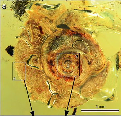 Archaeocyclotus plicatula Asato and Hirano, gen. et sp. nov. from the mid-Cretaceous Burmese amber. Holotype NMNS PM 27992. (a) Apical view showing a protoconch, growth ribs and periostracum.